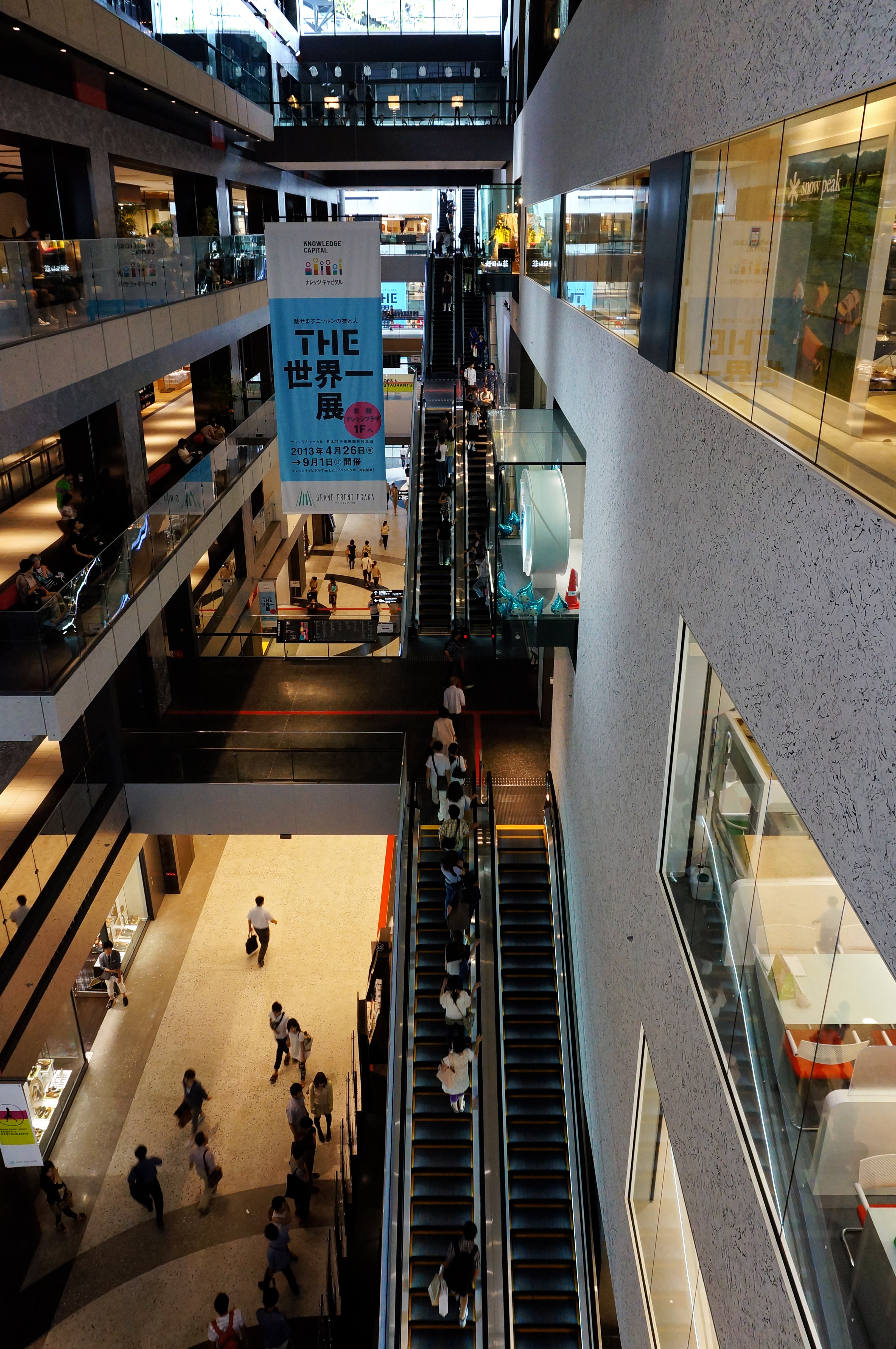 Grand Front Osaka in Osaka, Osaka prefecture, Japan.